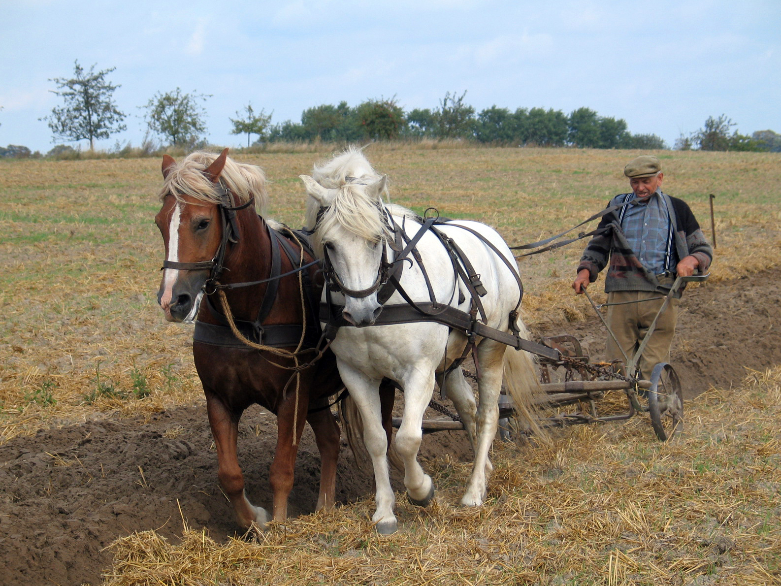 Farmer plowing in Fahrenwalde, Mecklenburg-Vorpommern, Germany